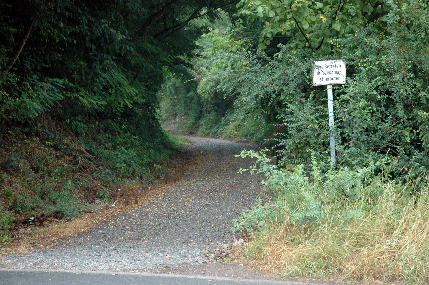 remainings of lower Kocher valley rail line in Hardthausen-Gochsen